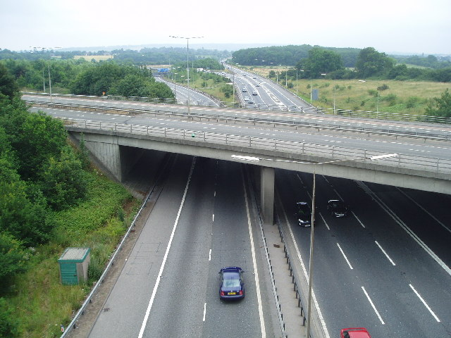 M25 & M26 near Chevening & Chipstead. This is where the M25 London Orbital Road turns to the north (left in the picture) and the M26 continues to the east.